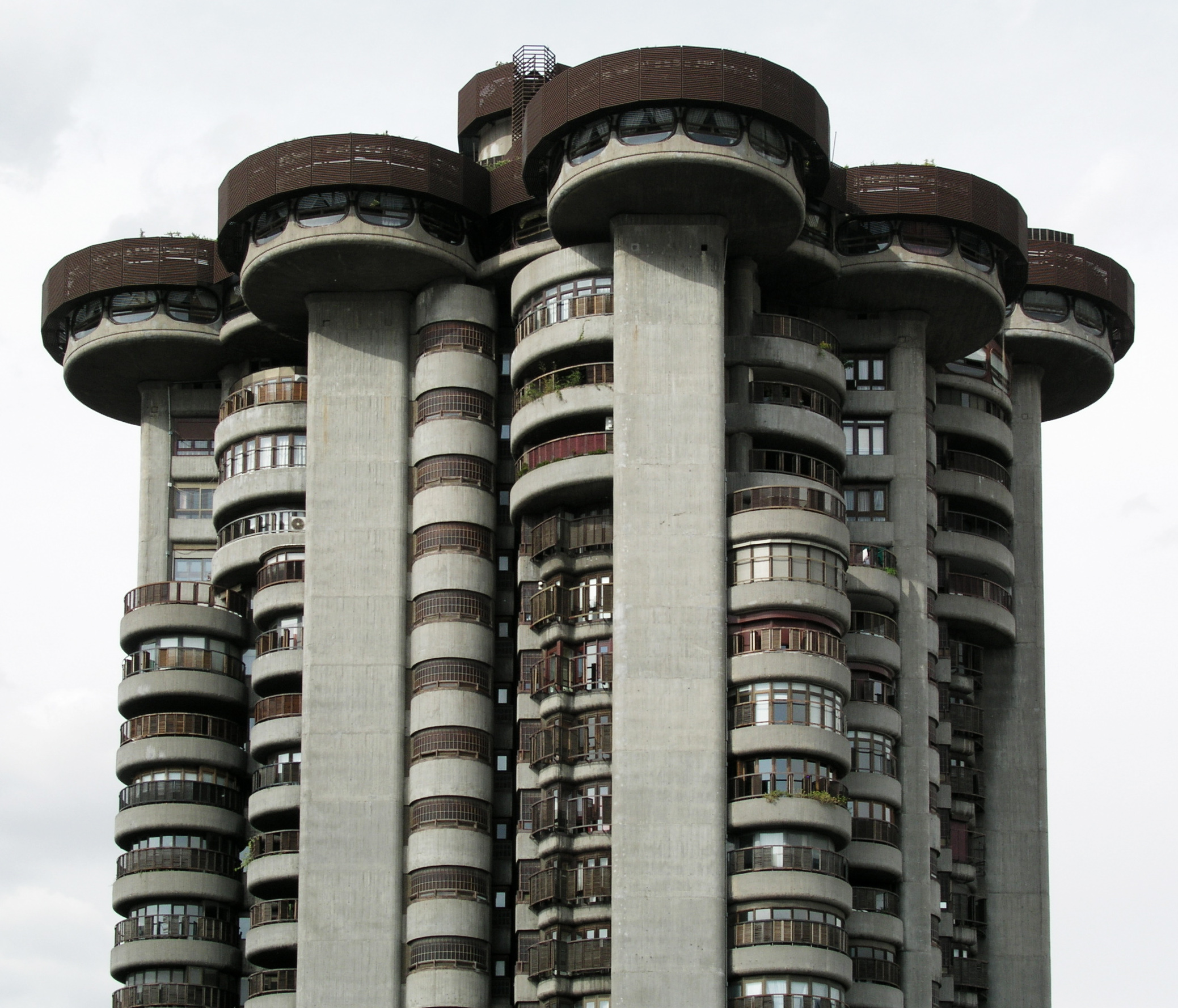 Torres Blancas, Madrid, Spain